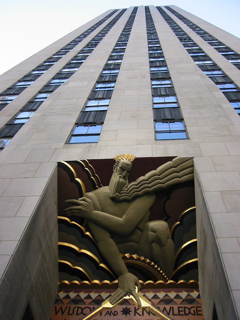 Rockefeller Center, New York City